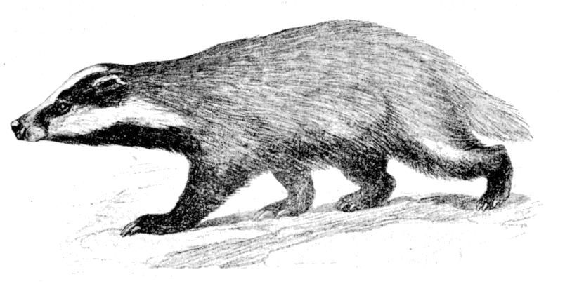 Fig. 218.—Badger. Meles taxus. × 1⁄6. Synonym of Meles meles.